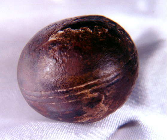 Hematite concretion found in the pyrophyllite ( wonderstone ) deposits near Ottosdal South Africa Also called Klerksdorp Sphere.